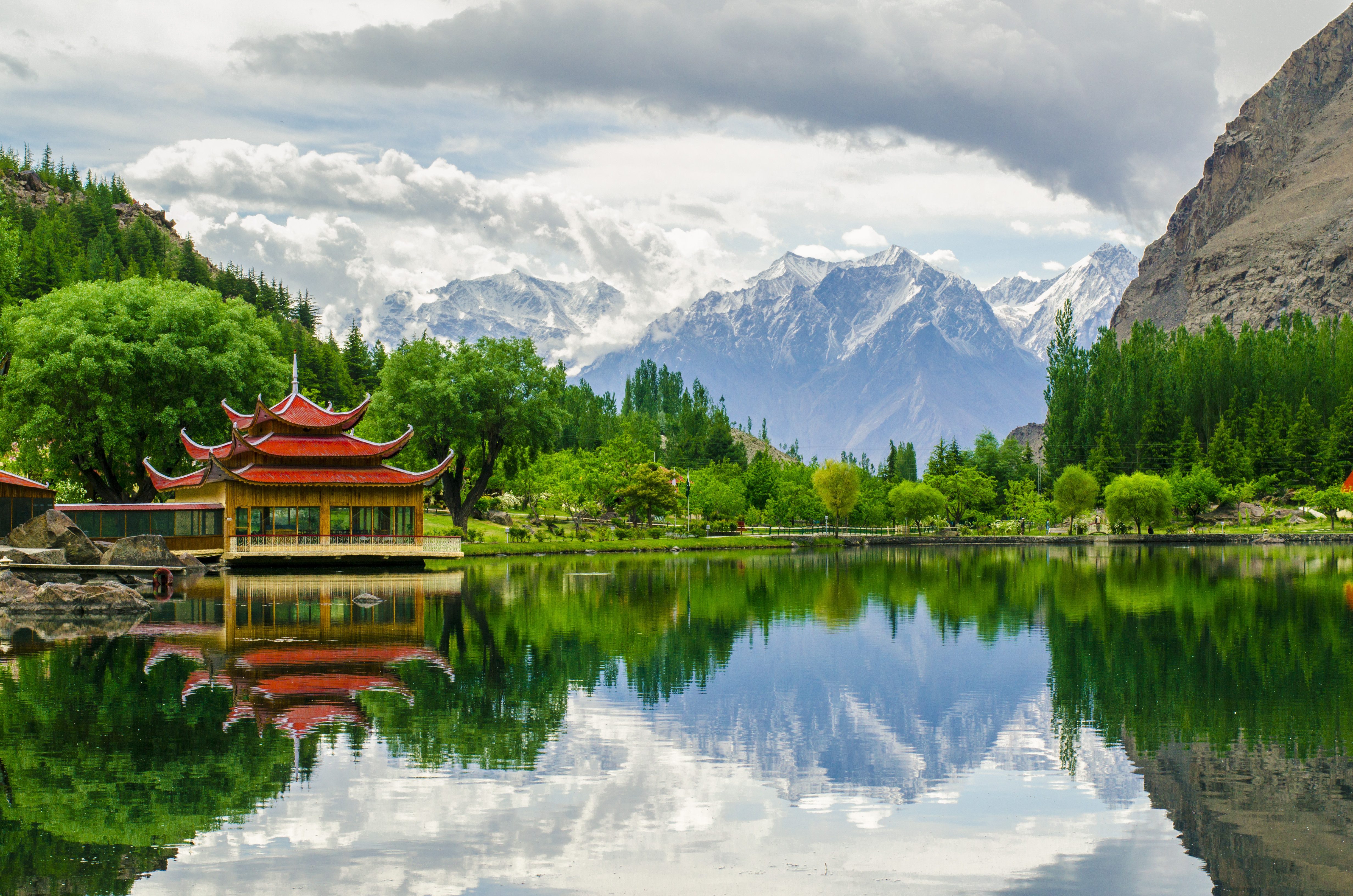 A small but very beautiful lake and a top tourist site.